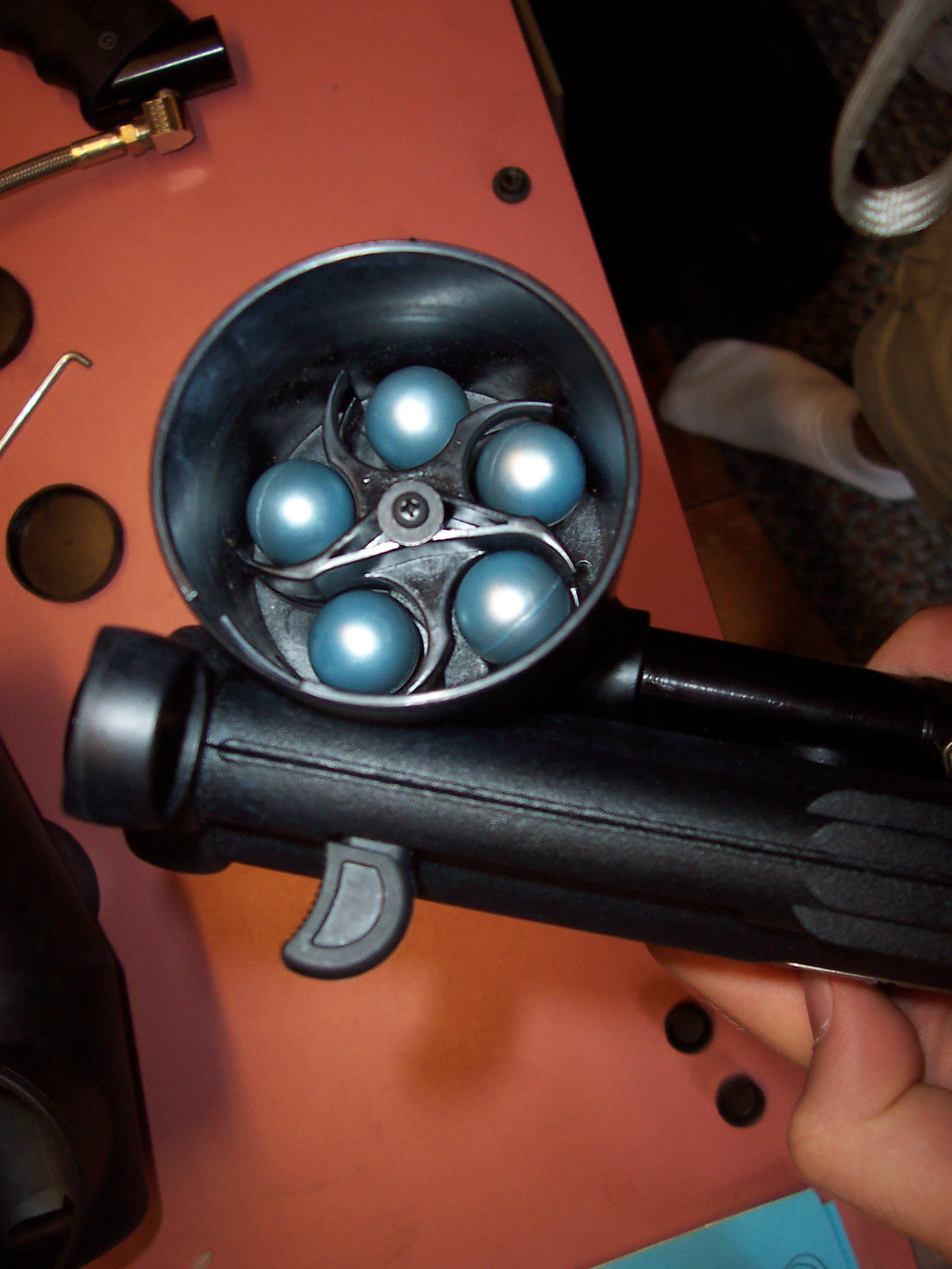 Picture showing the unique feed system of the Tippmann A5.